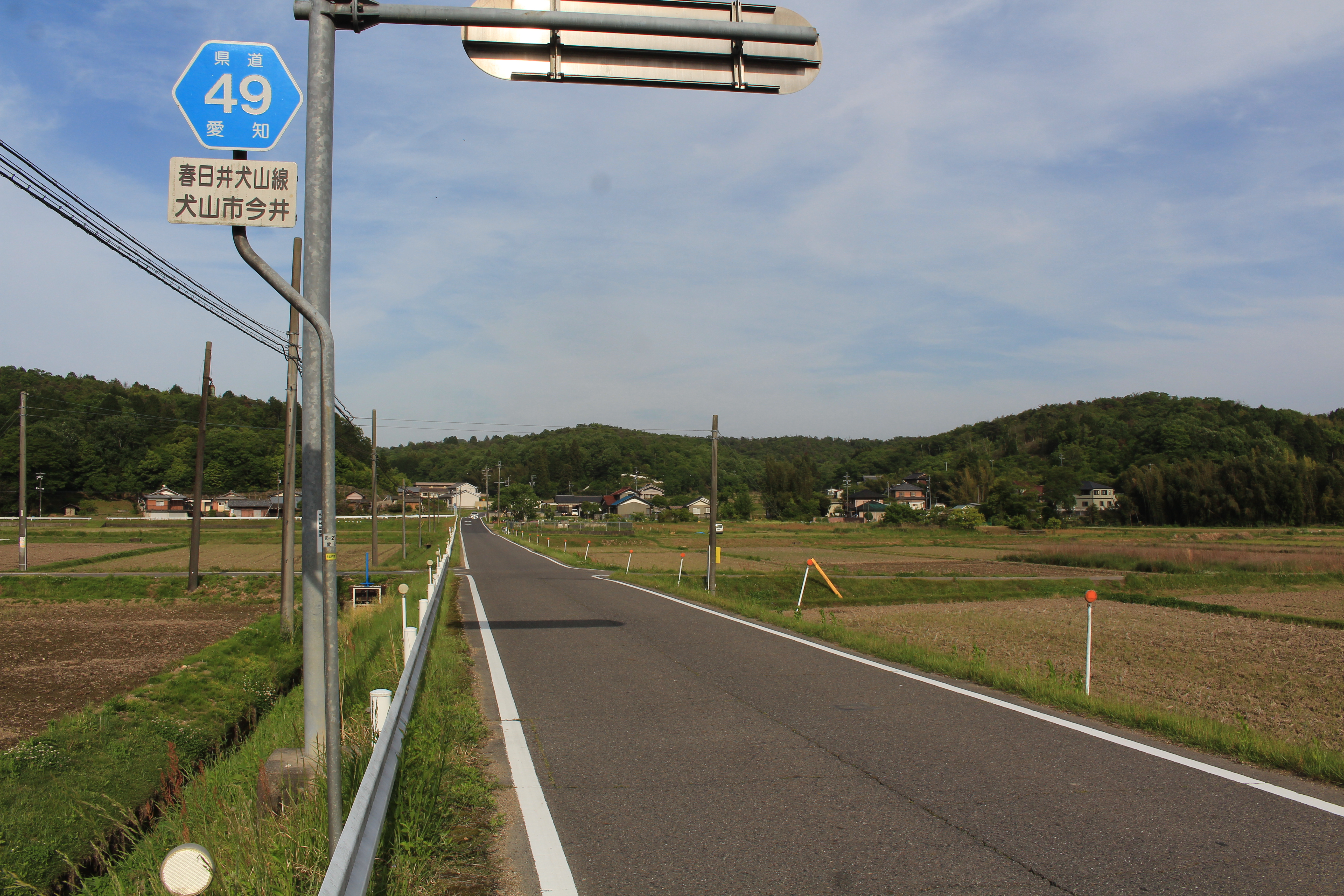 Aichi prefectural road route 49 in Imai, Inuyama, Aichi prefecture, Japan.